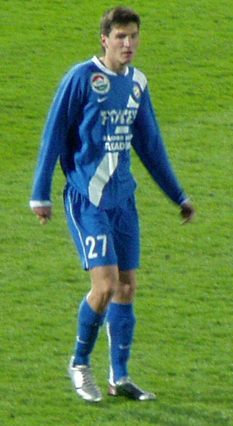 Ádám Pintér Hungarian association football player.